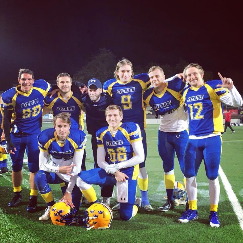 Picture from Sweden vs Great Britan, 14th of october 2017.